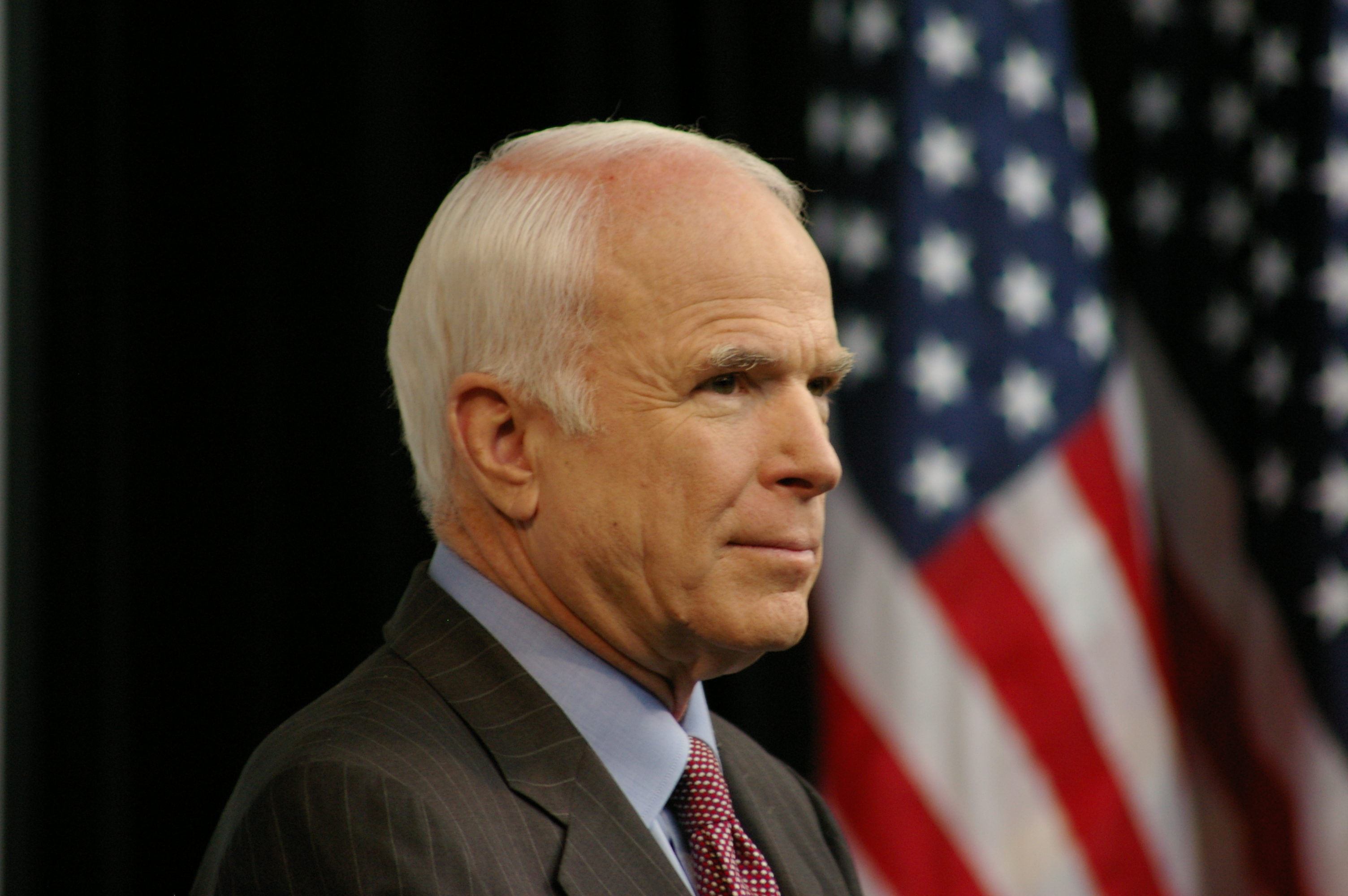 John McCain waits to deliver speech in Denver, Colorado on May 27, 2008 regarding nuclear security.[1]